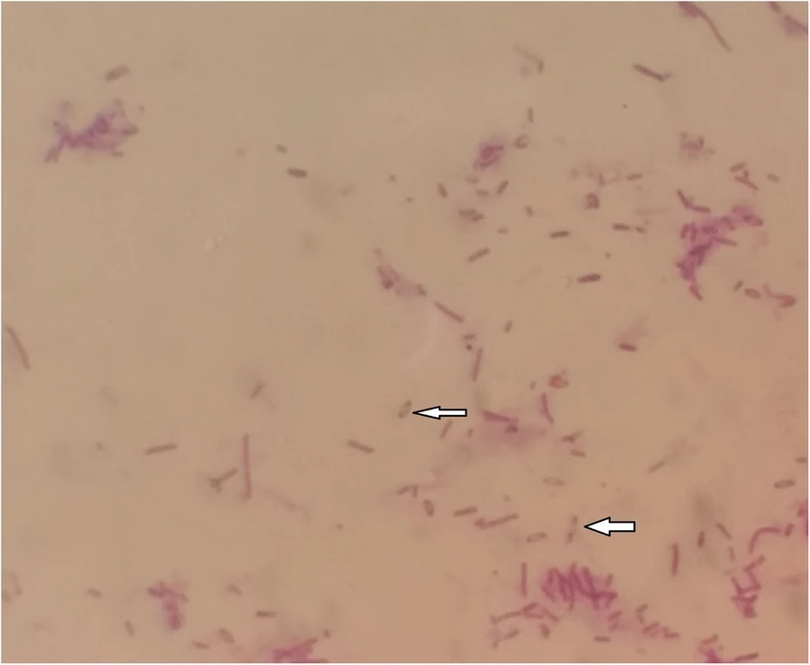 Burkholderia pseudomallei gram stain with bipolar staining resembles safety pin apperance.